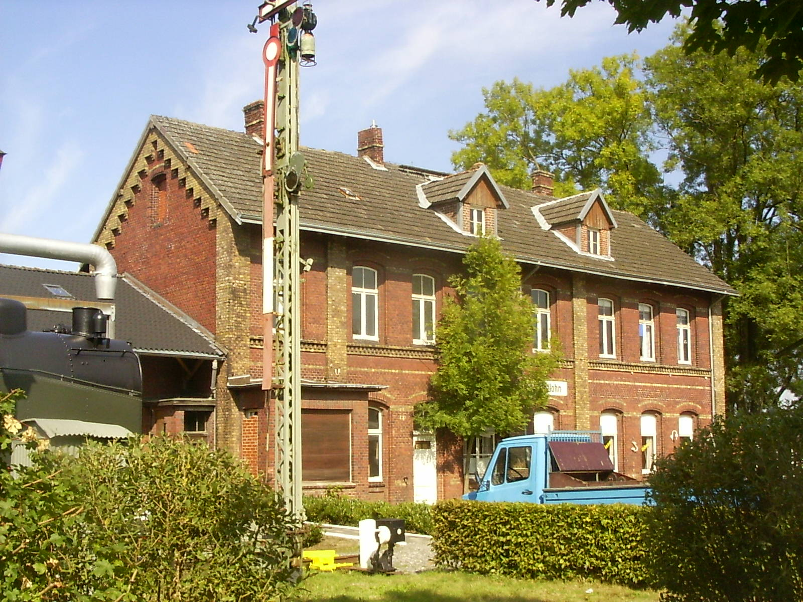 The former railway station of Stadtlohn